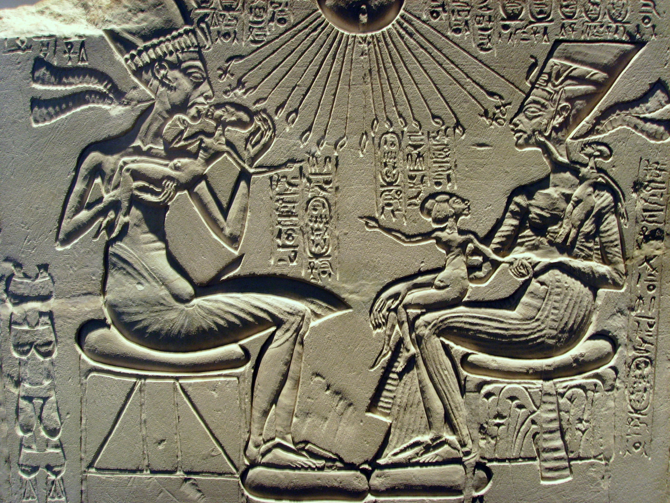 A house altar showing Akhenaten, Nefertiti and three of their daughters. 18th dynasty, reign of Akhenaten